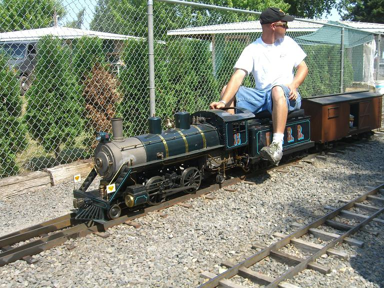 Person driving large-scale model railroad locomotive at Antique Powerland in Brooks, Oregon, United States.